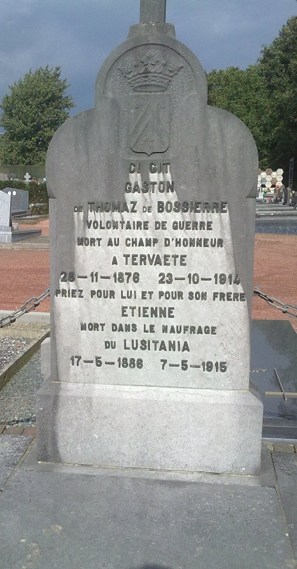 Grave of Gaston Thomaz de Bossiere (1876-1914) fallen fighting in Tervaete and his brother Etienne Thomaz de Bossiere (1886-1915) who died in the sinking of the Lusitania ocean liner. Ottignies cemetery, Walloon Brabant, Belgium.